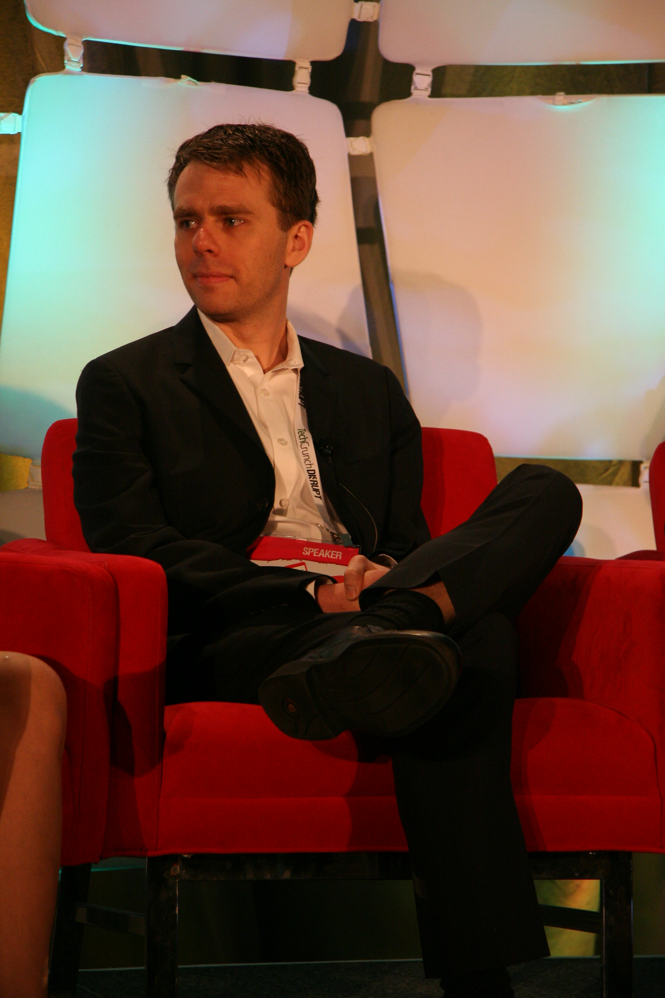 Scott Heiferman, chief executive officer of , at TechCrunch in New York City.